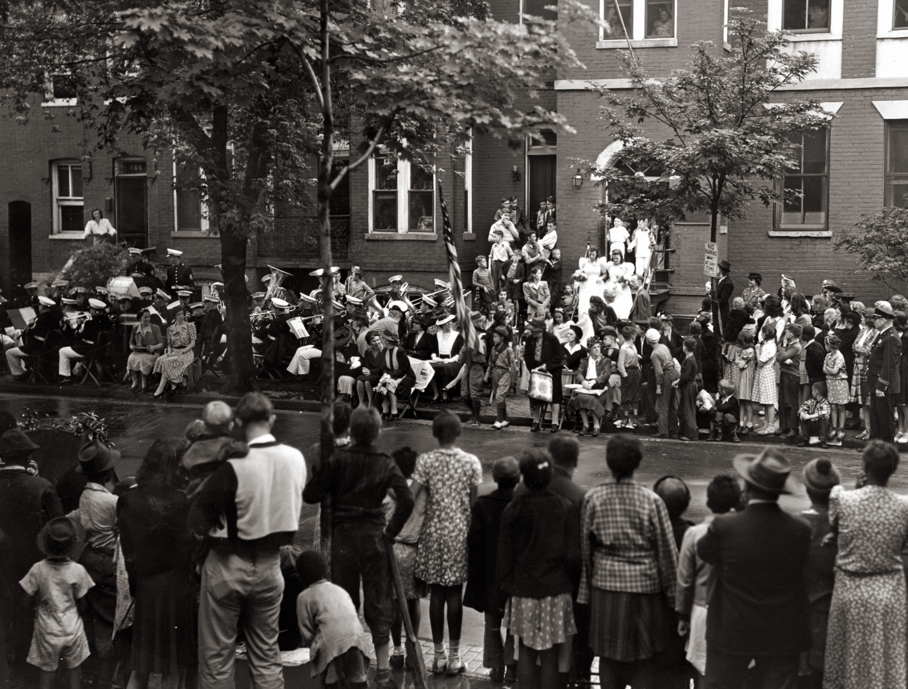 A mock wedding ceremony taking place on N Street SW in Washington, D.C.